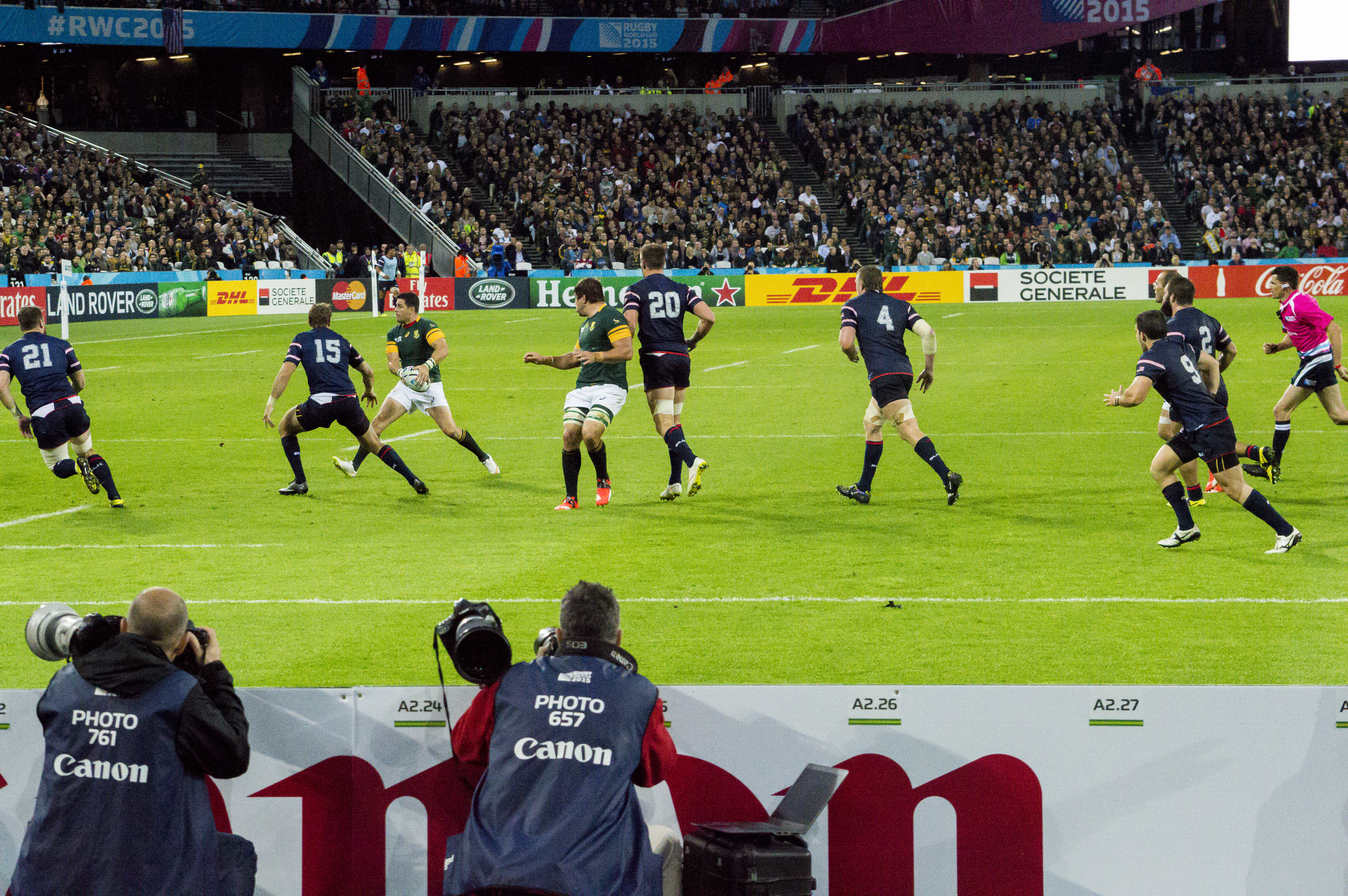 2015 Rugby World Cup game between South Africa and United States played at the Olympic Stadium in London.